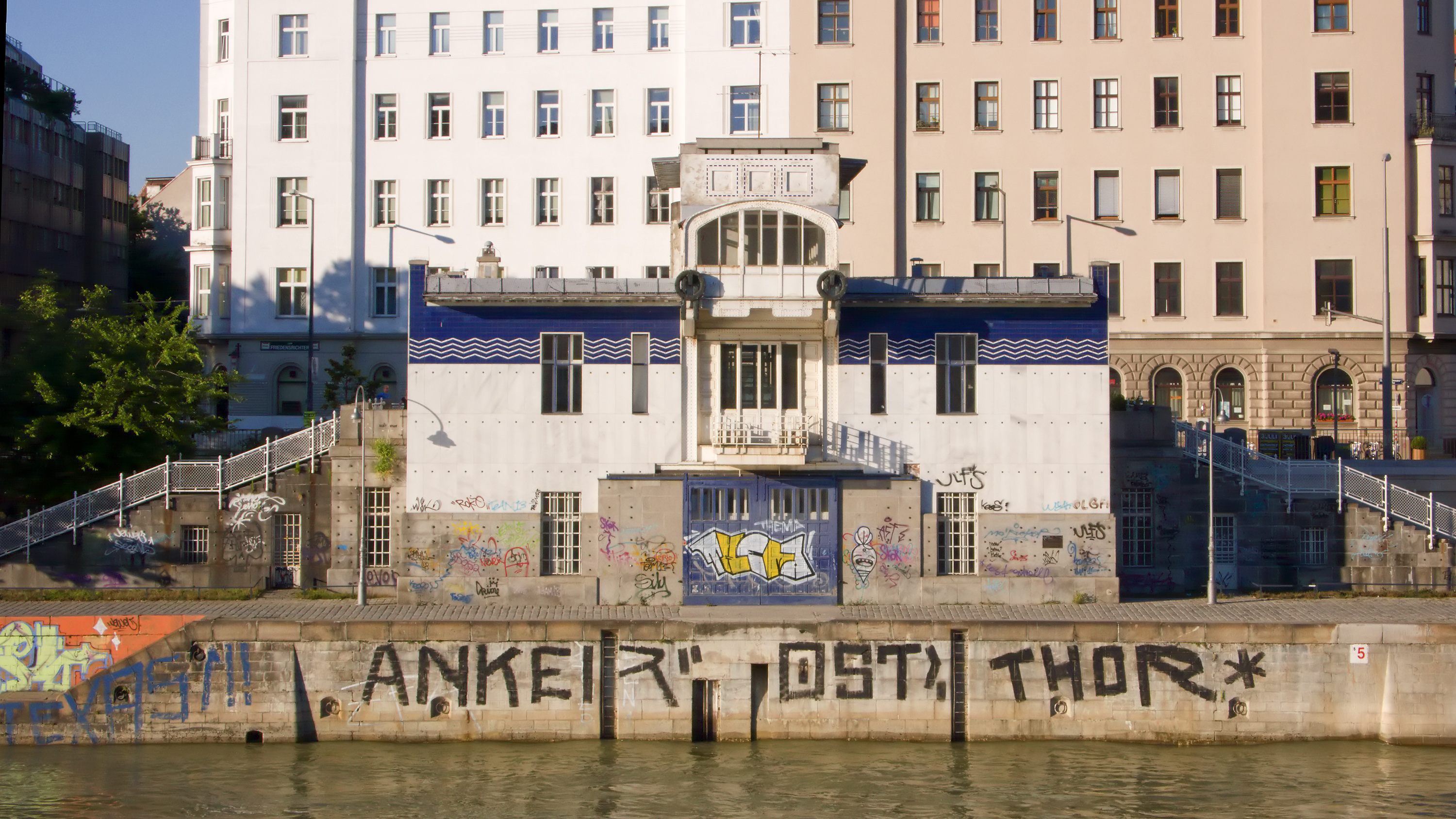 Schützenhaus at Donaukanal in Vienna Leopoldstadt